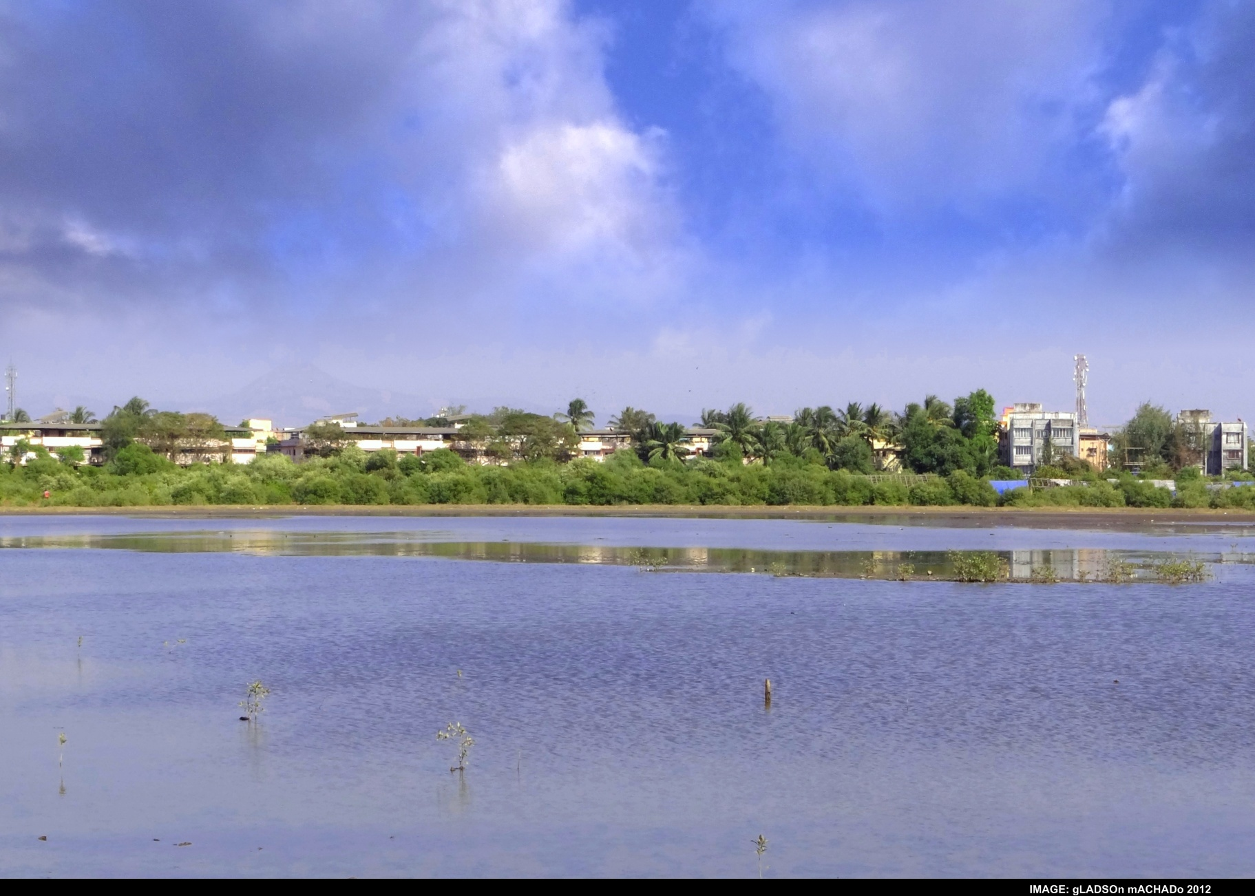 View of Amol Nagar Building Complex from Naigaon Koliwada Jetty.